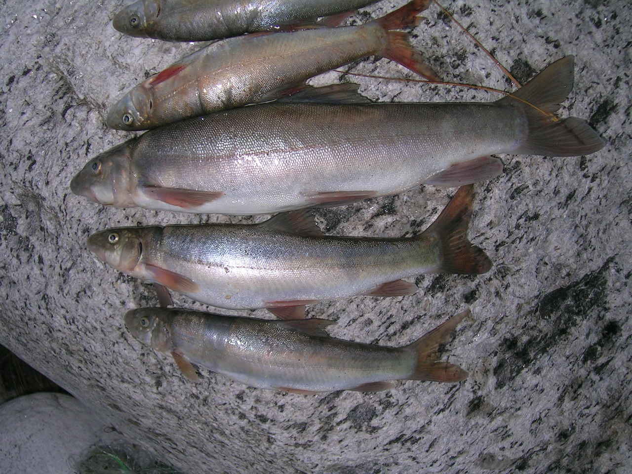 Schizothorax species from the Ghori river, Pithoragarh, India. Locally called Asela That term usually denotes S. plagiostomus or S. richardsonii (though it properly refers to the former - if they are not conspecific) -- dysmorodrepanis